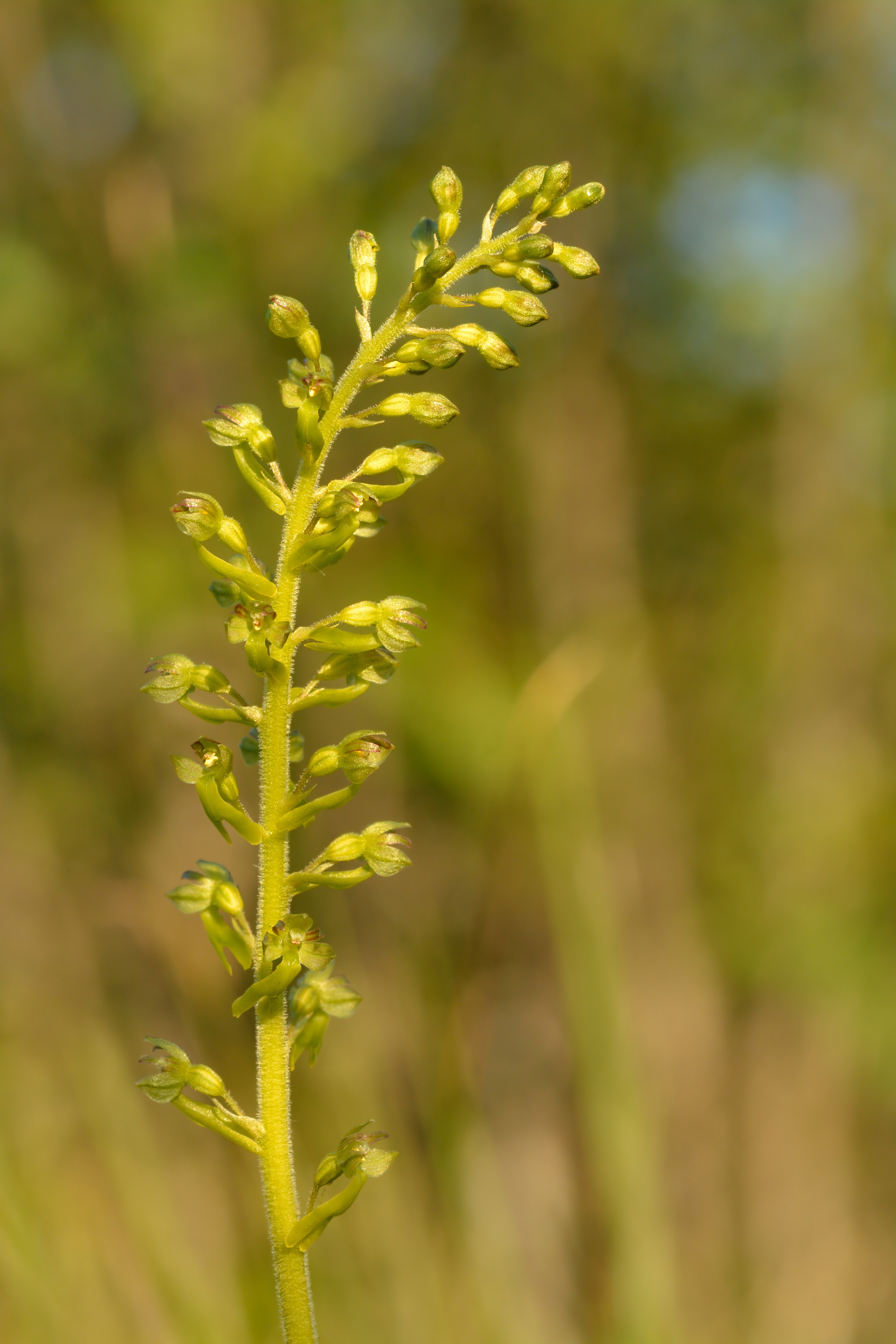 Common Twayblade (Neottia ovata). Niitvälja bog, Northwestern Estonia.